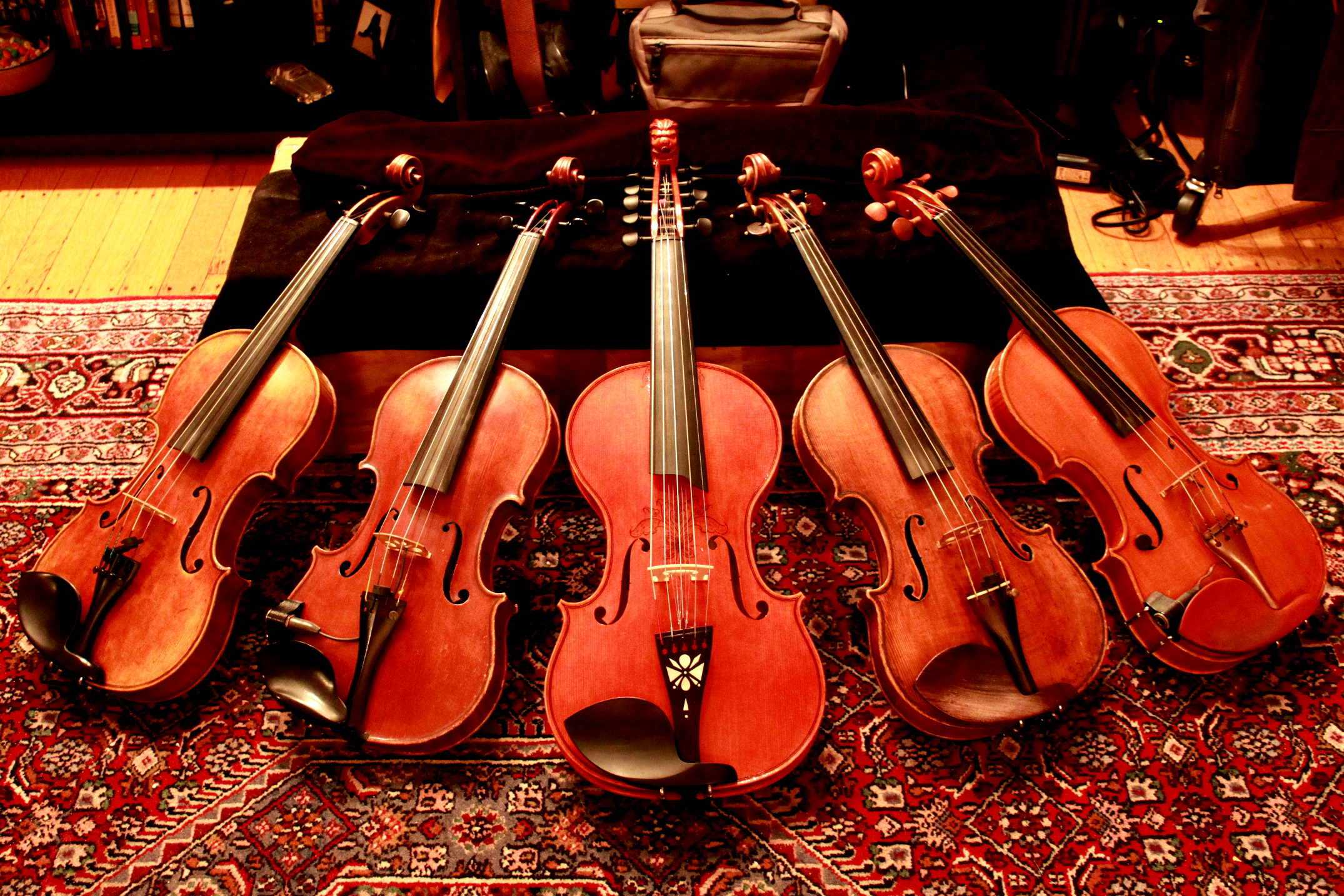 Here are all the fiddles in our apartment right now. left to right : Jay Haide Joseph Collingwood Salve Håkedal Stefano Scarampella Stefano Conia